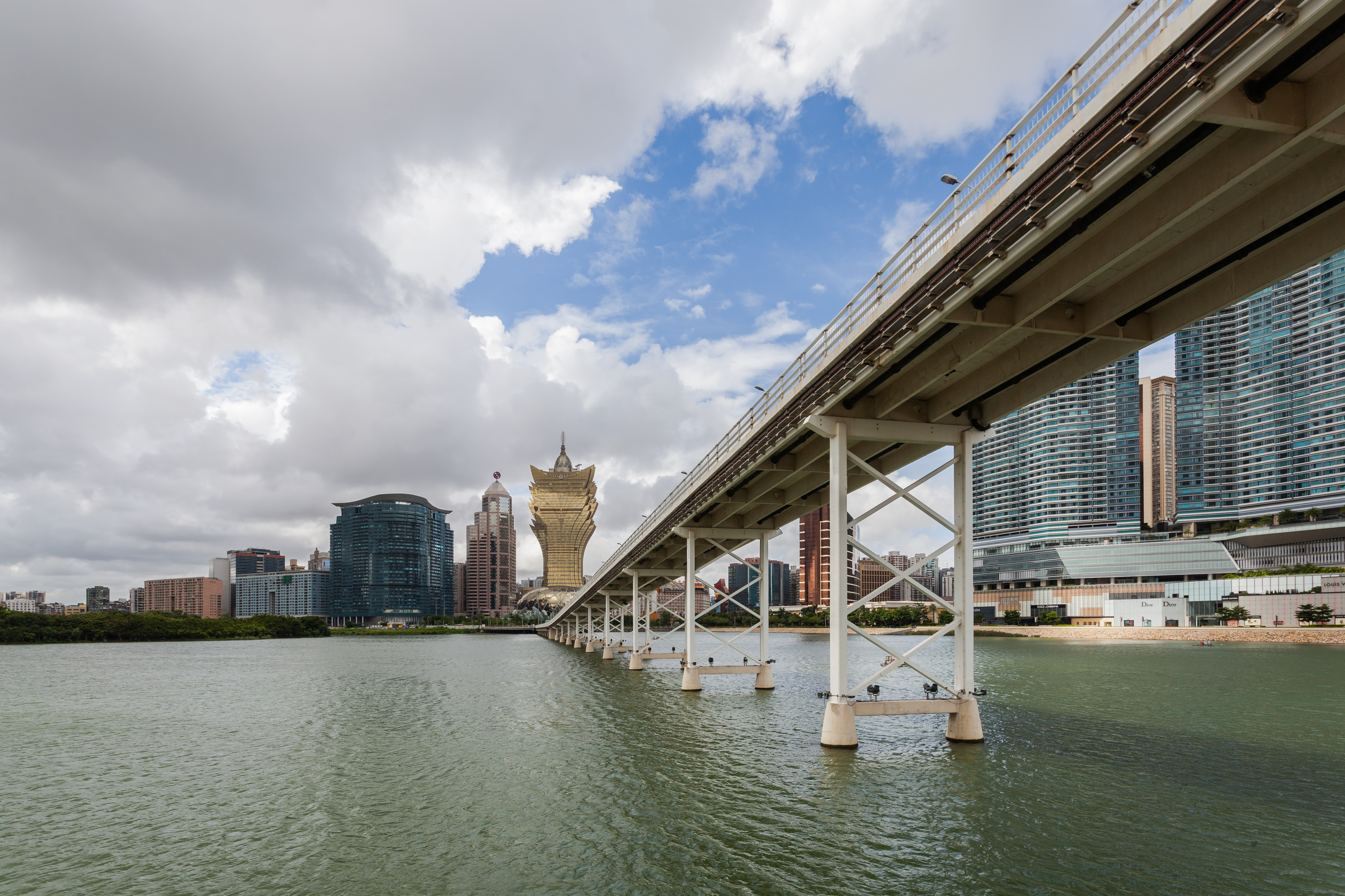 Bridge Governador Nobre de Carvalho, Macau